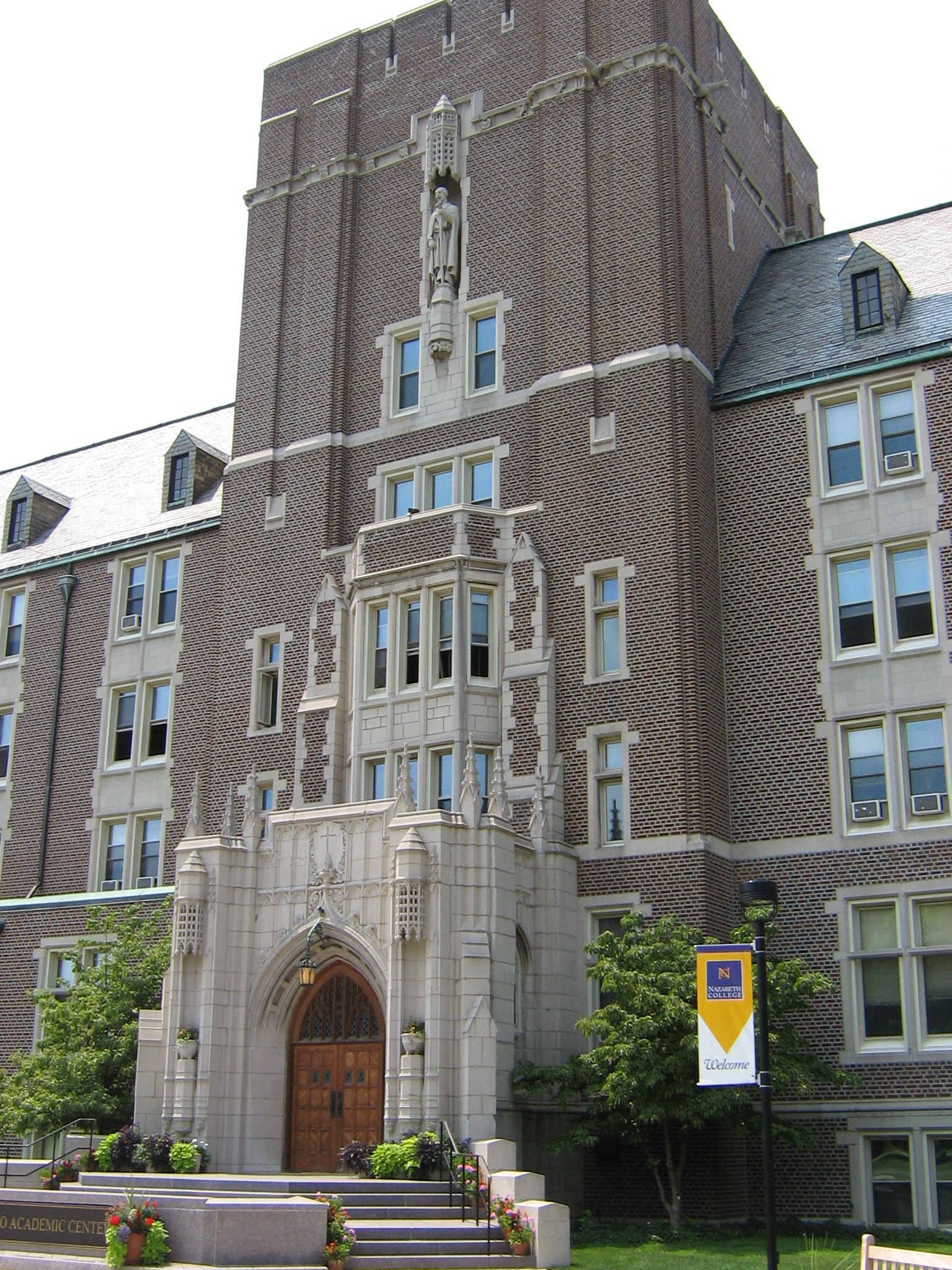 The Golisano Academic Center at Nazareth College in Rochester, NY